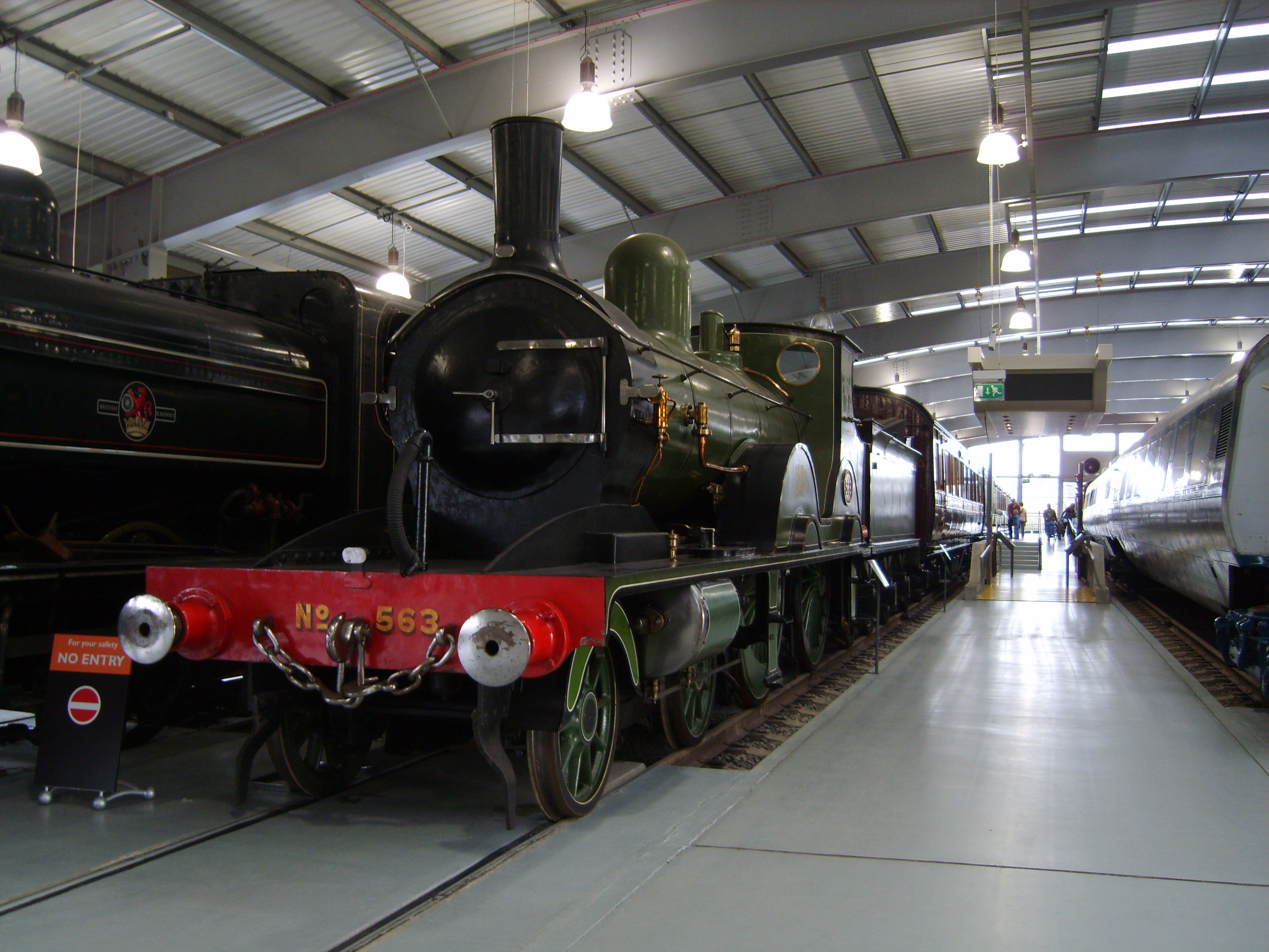 London and South Western Railway Adams T3 class 4-4-0 No. 563, passenger express locomotive built in 1893, the Locomotive. Shown at the Shildon Locomotion Museum. Category:Museum collections